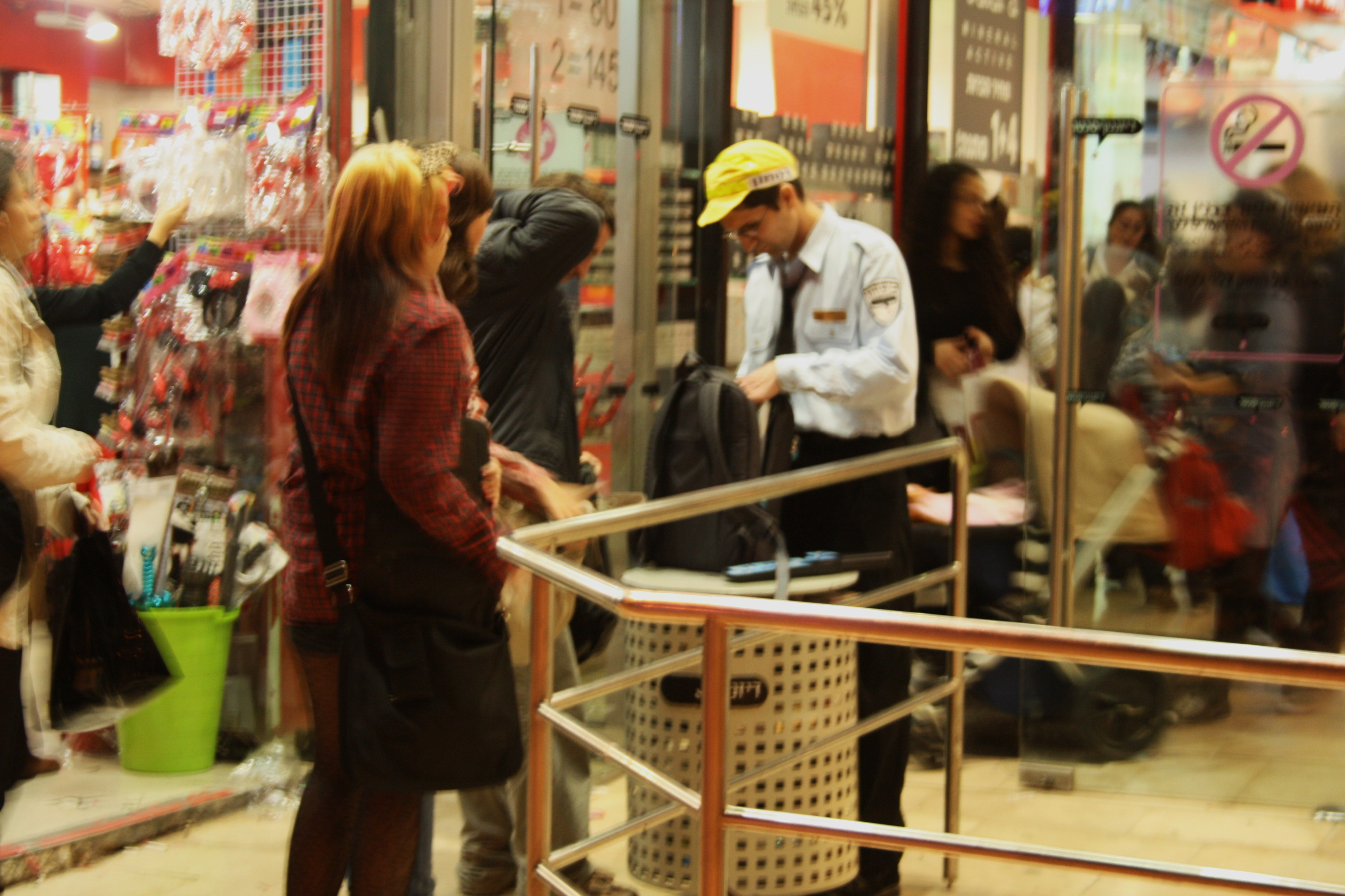 Security Check at the Dizengoff Center, Tel Aviv